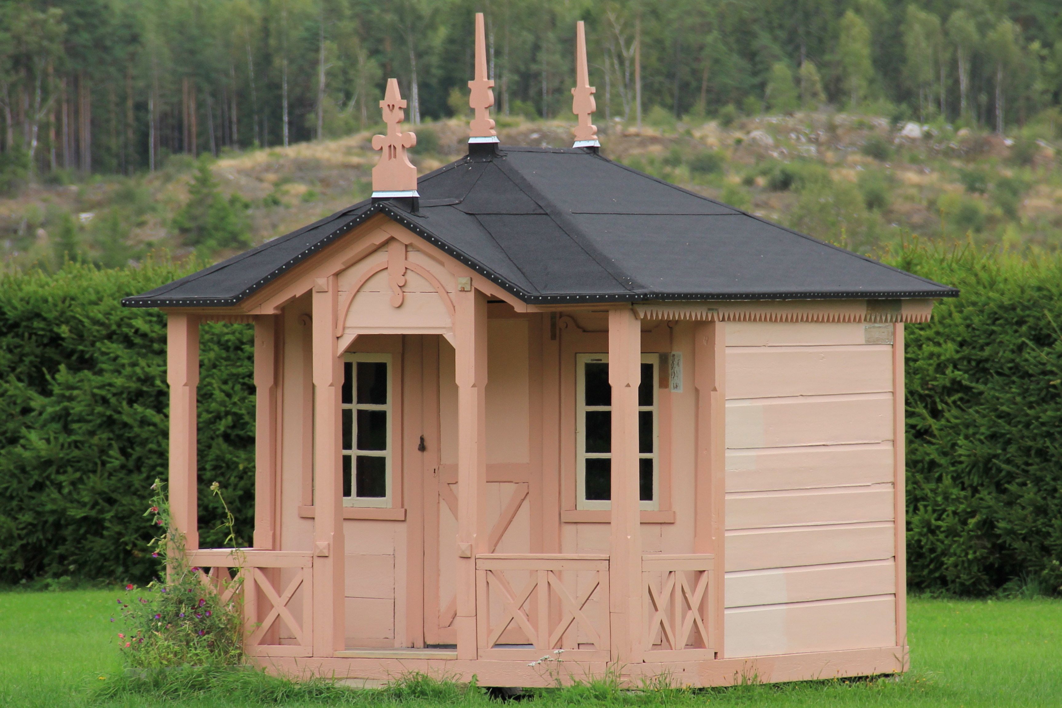 Louhisaari manor, Askainen, Masku, Finland. - Louhisaari playhouse from the 19th century.